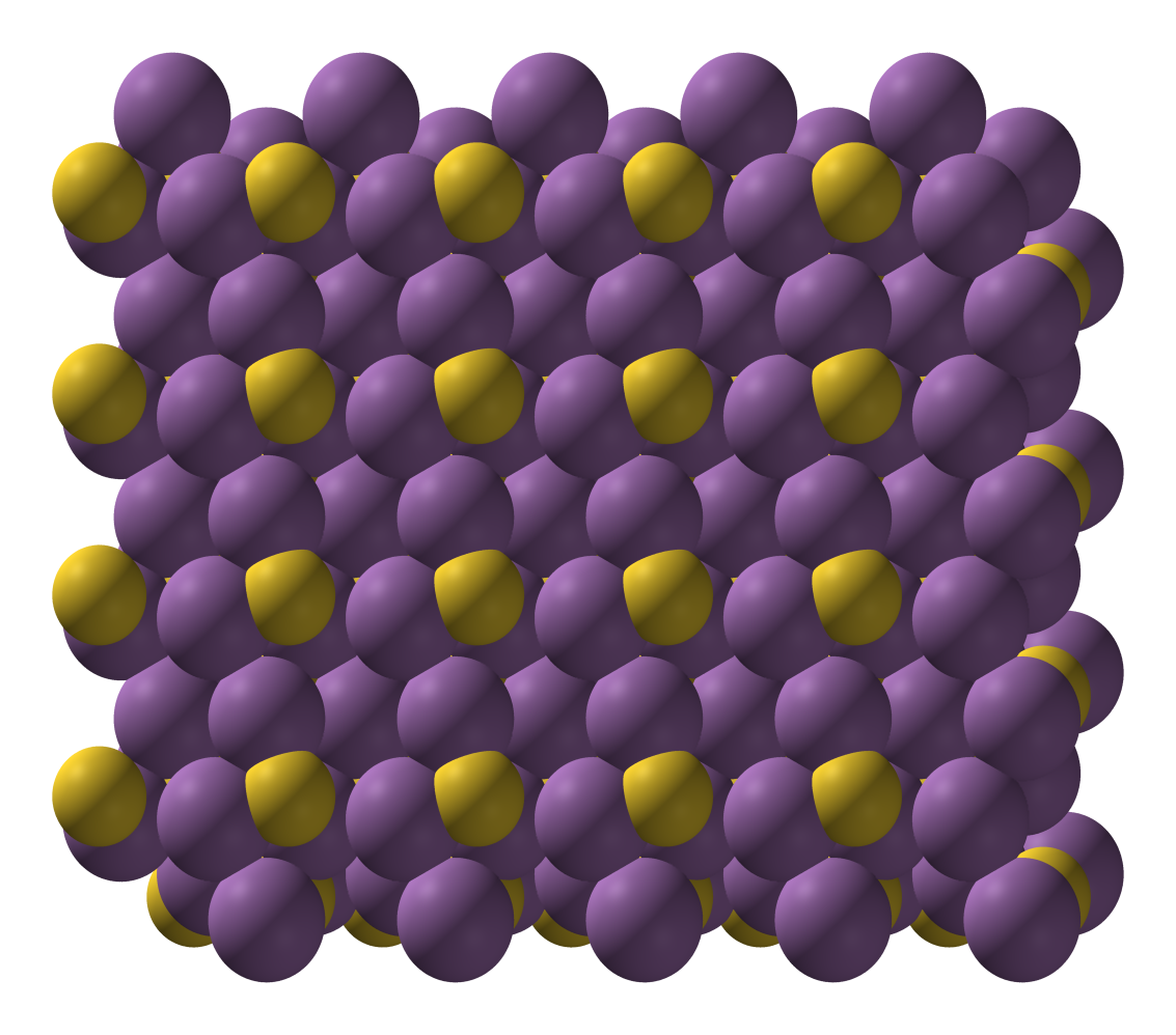 Space-filling model of part of the crystal structure of aurostibite, AuSb2. Structural data from Am. Mineral. 1952, 37, 461-469.